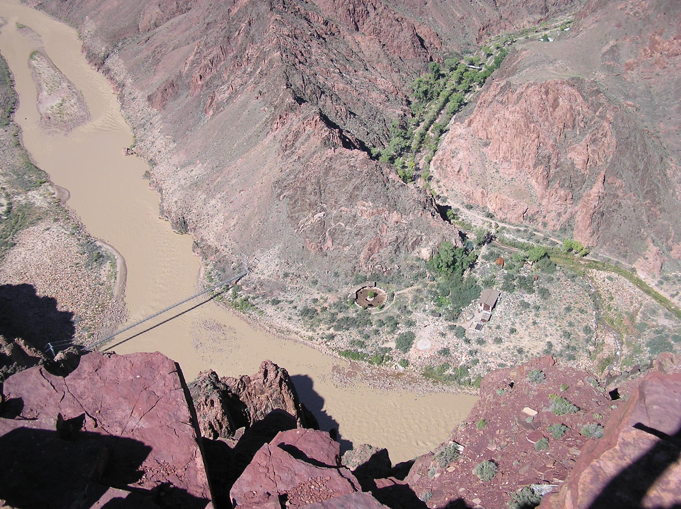 Colorado River and Phantom Ranch from South Kaibab Trail, Grand Canyon National Park. Photo taken 24 October 2004.